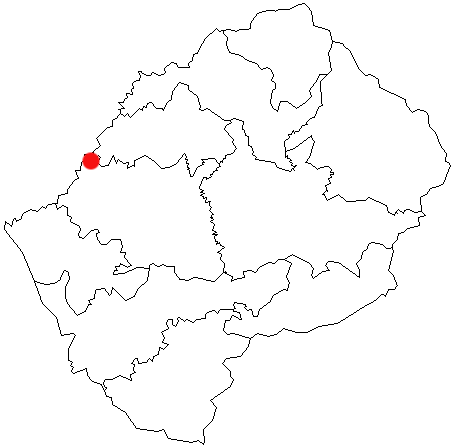 Locator map of Maseru, Lesotho. created with the GIMP. Made by User:Acntx, uploaded on 21 December 2005.